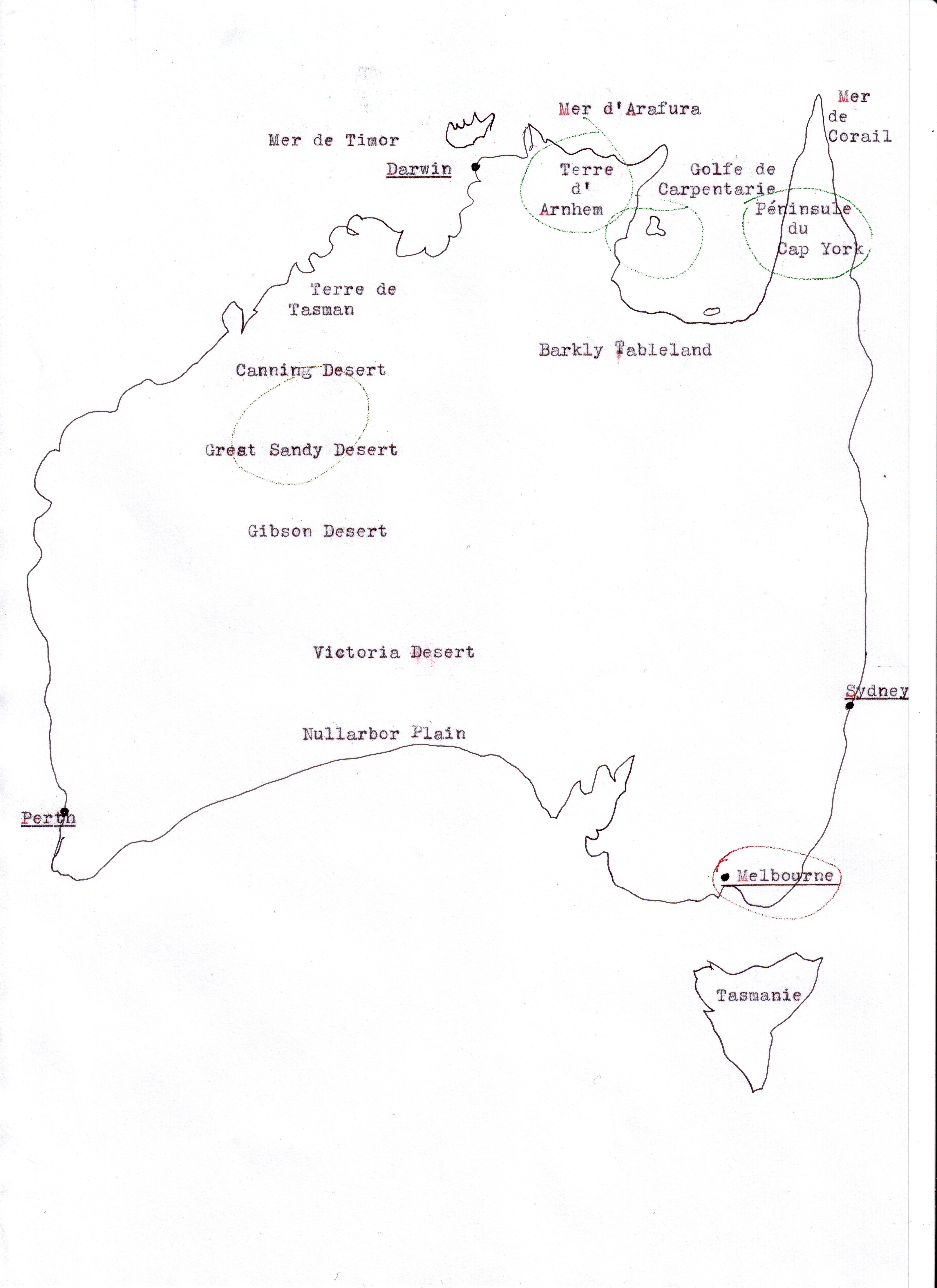 Map of Australia with Donald Thomson's lifeworks locations : in Melbourne (University) - in the "Top End" (Cape York, Caledon Bay, and Arafura Swamps) - in the Great Western Deserts